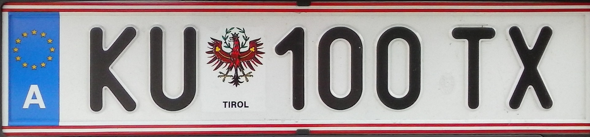 Special number plates for the taxis